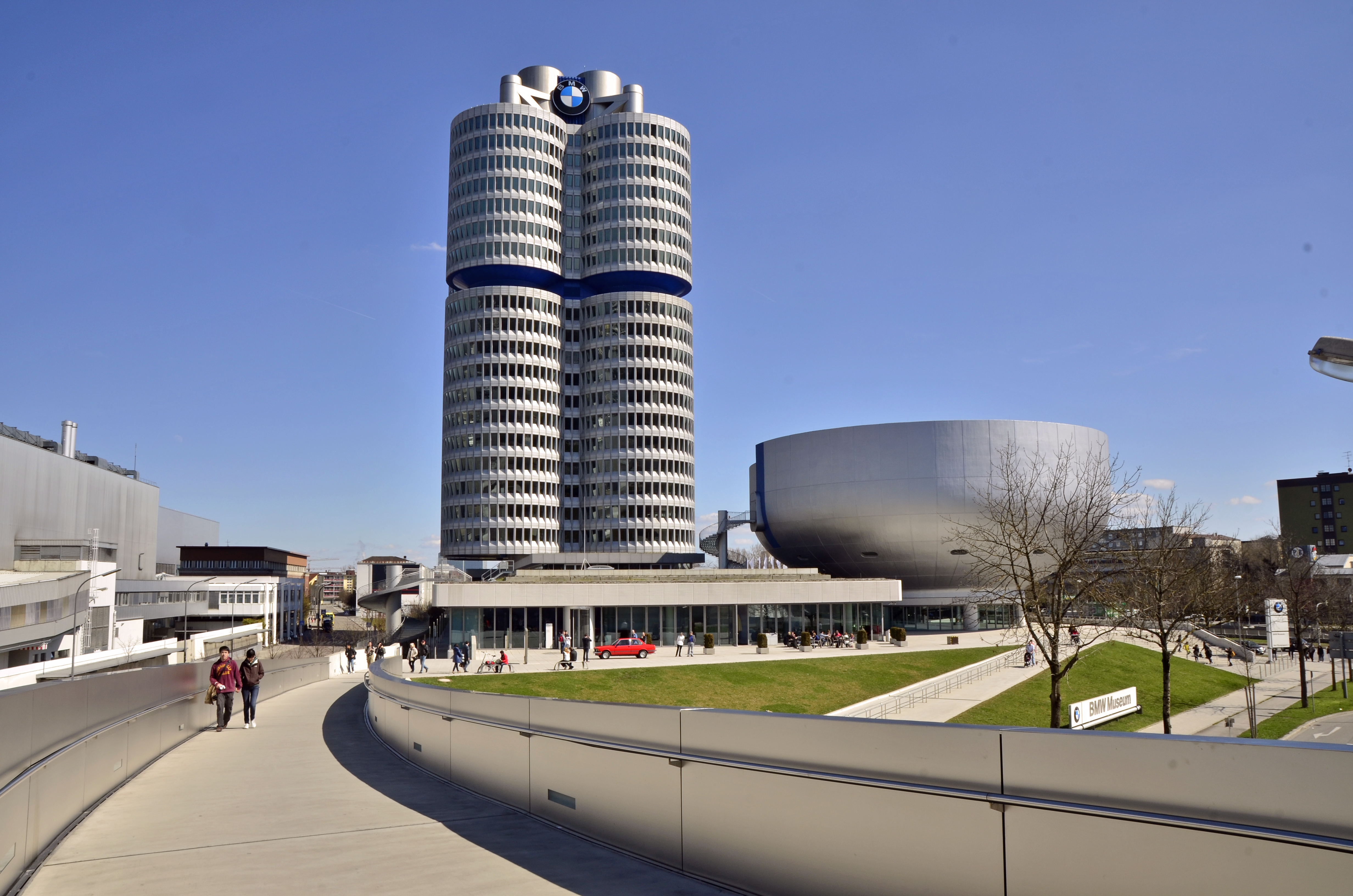 BMW HQ Tower + BMW Museum